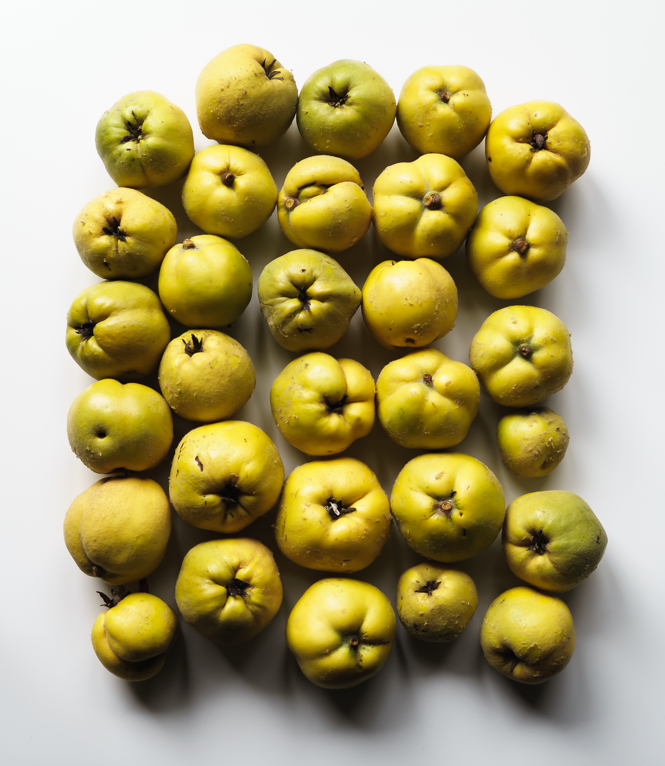 Ripe quinces (Cydonia oblonga) from the Vogelsberg